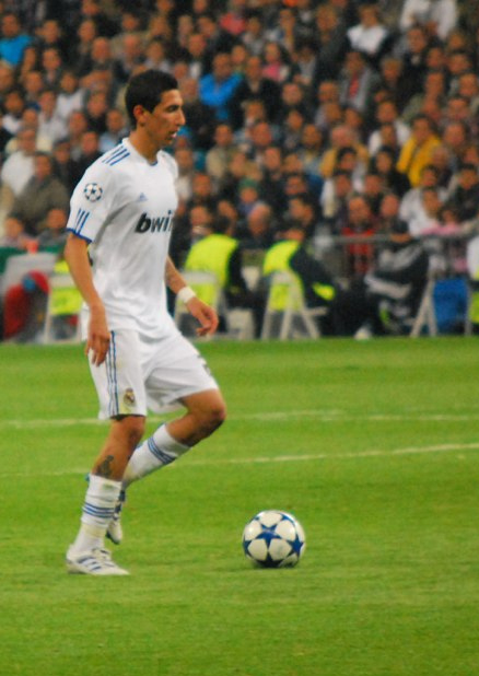 di maria